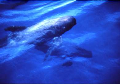 This photo of two Long-finned Pilot Whales is taken from . The photo was taken by Sally Mizroch of the National Marine Mammal Laboratory sometime prior to November 2003. The copyright permissions of the NMML are described here. The full credit for this photo is due to Sally Mizroch, National Oceanic and Atmospheric Administration, National Marine Fisheries Service, Alaska Fisheries Science Center, National Marine Mammal Laboratory. In order to maintain compatibility with the GFDL and the Laboratory's request, please do not remove the credit.